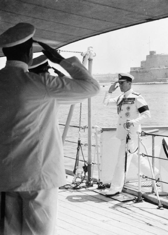 IWM caption : ADMIRAL OF THE FLEET EARL MOUNTBATTEN OF BURMA. Mountbatten arrives on board HMS GLASGOW at Malta to assume command of the Mediterranean Fleet